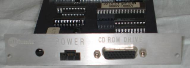 HCCS A5000 Mitsumi CD Interface (back).The HCCS Ultimate A5000 Mitsumi CD interface is an early CDROM interface for Acorn computers. I think that it has a proprietory Mitsumi interface.The podule came with an Apple CD 300 CDROM. When I opened the case the CDROM drive inside is a Mitsumi CRMC-FX001D. This is an 2x drive. It is curious that a search on Google suggests that the Apple CD 300 has a Sony CDROM drive!